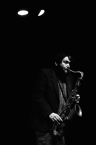 Saxophonist Steve Grossman playing in Tromsø, Norway